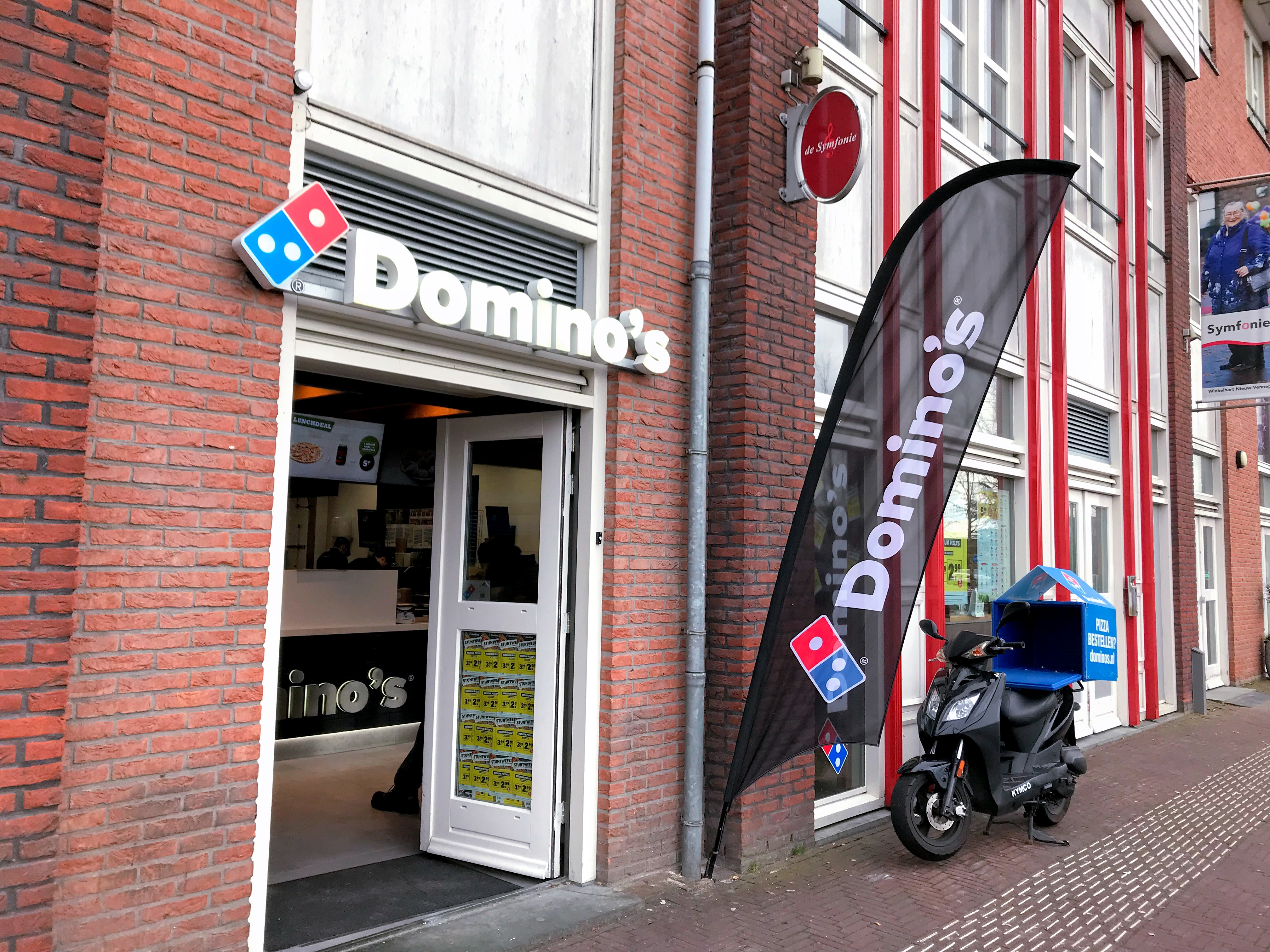 Dominos Pizza Nieuw-Vennep